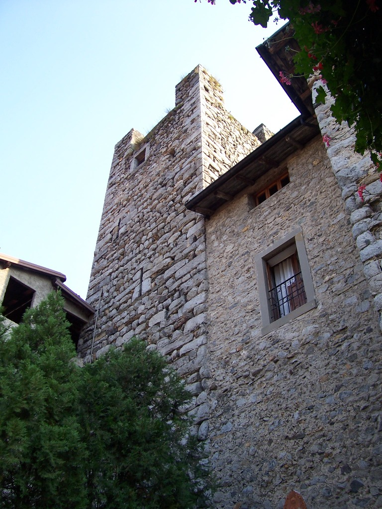 Tower in Nadro, Val Camonica, Italia